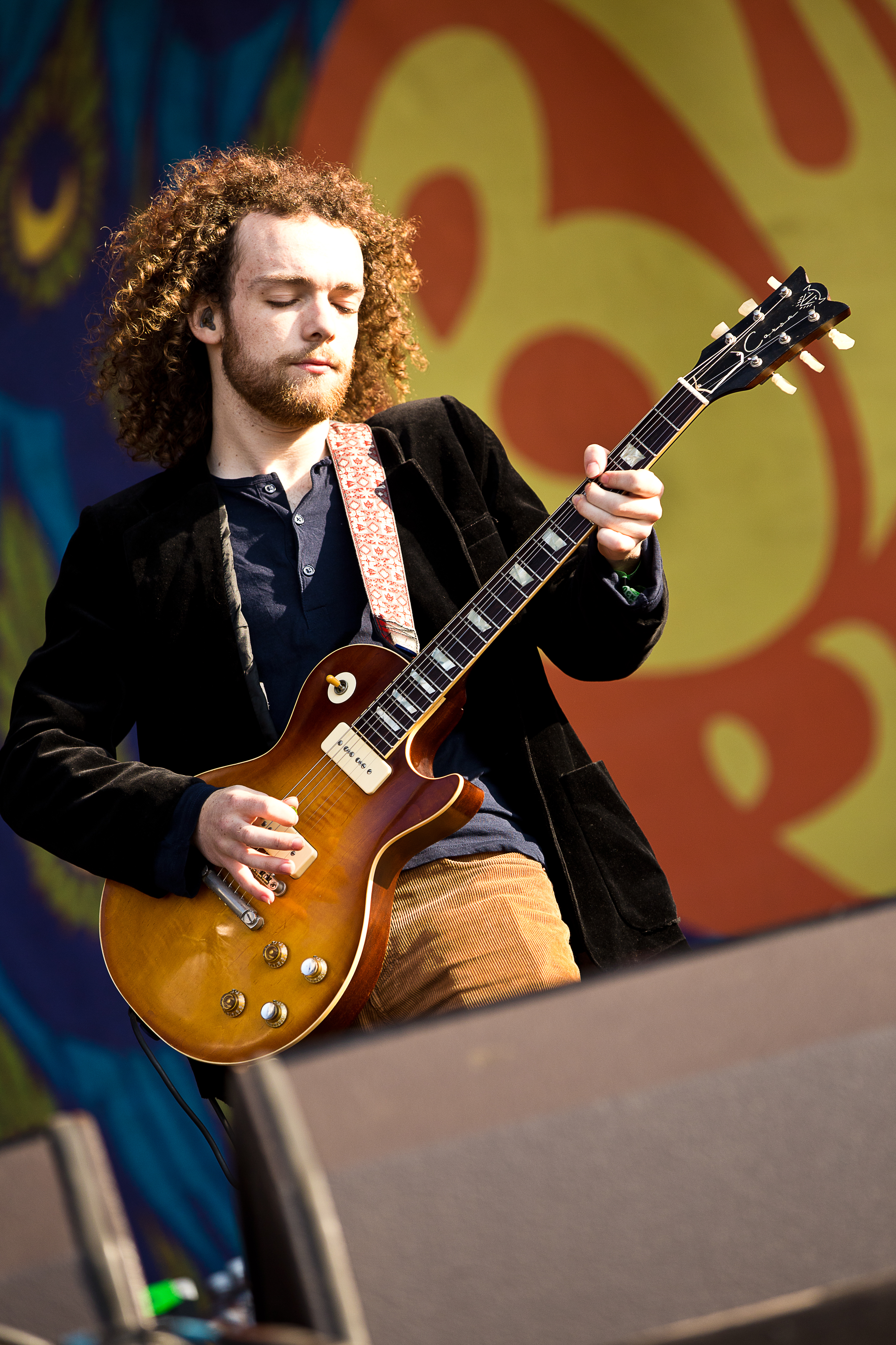 The Swedish blues rock band Blues Pills at the Rockharz Open Air 2015 in Ballenstedt/Germany.